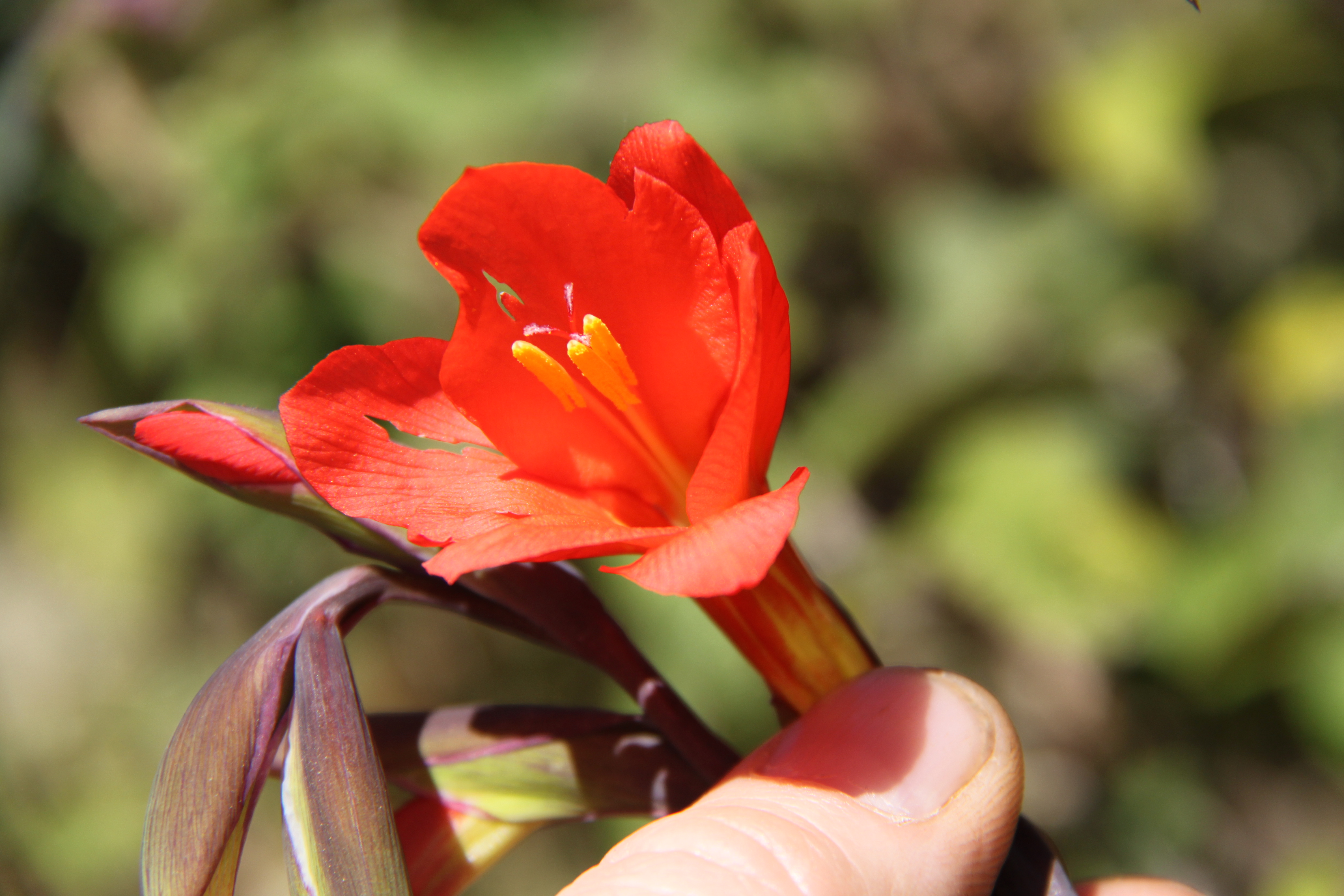 Gladiolus watsonioides, about 90 cm high, photographed just below Chogoria gate, at approximately 2900 m altitude